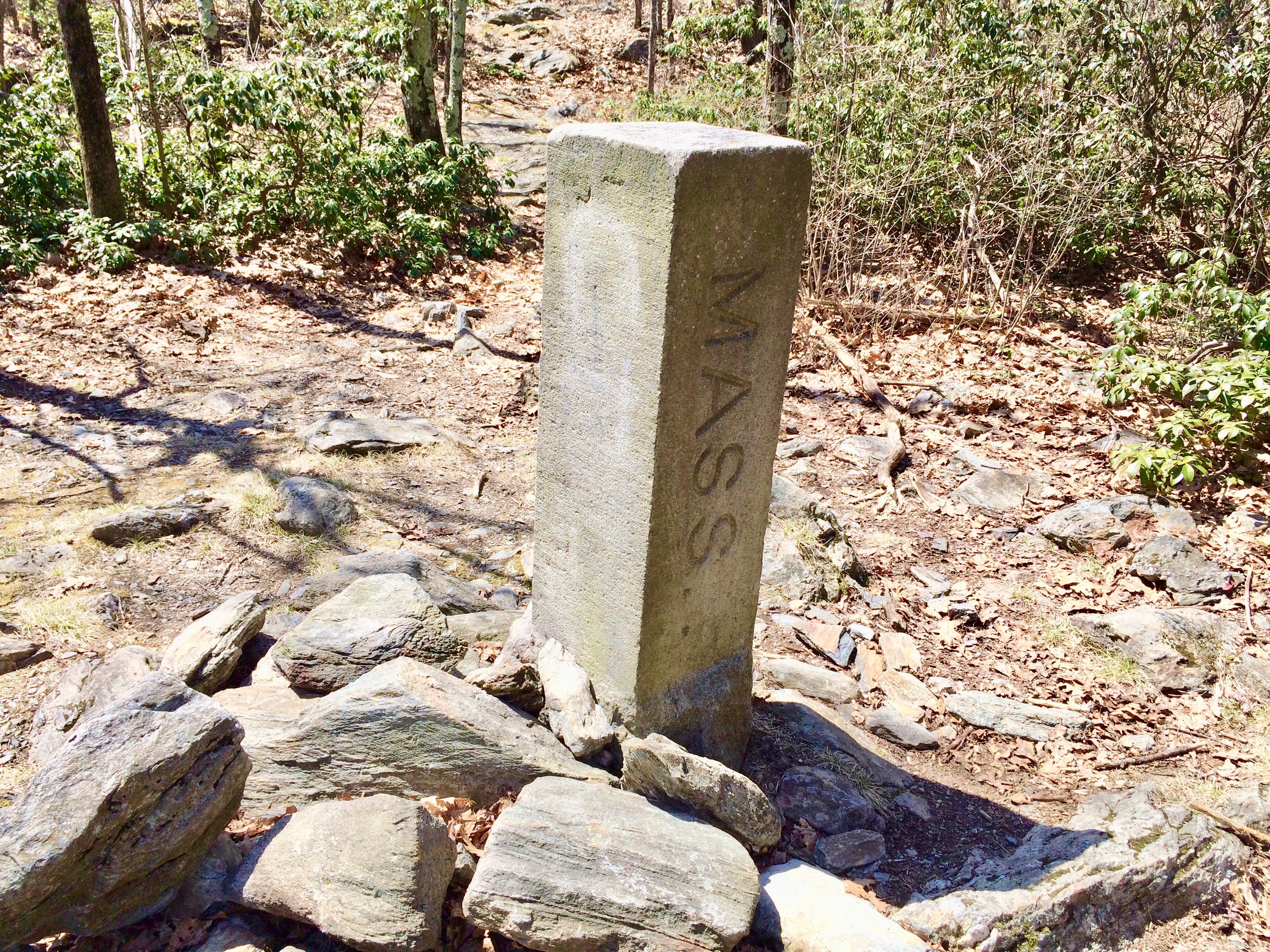 Tri-state boundary marker on the Mount Frissell Trail in Mount Washington State Forest marks Connecticut's northwest corner even though Connecticut is just "graffiti' on the granite (only Massachusetts and New York are engraved in the stone).